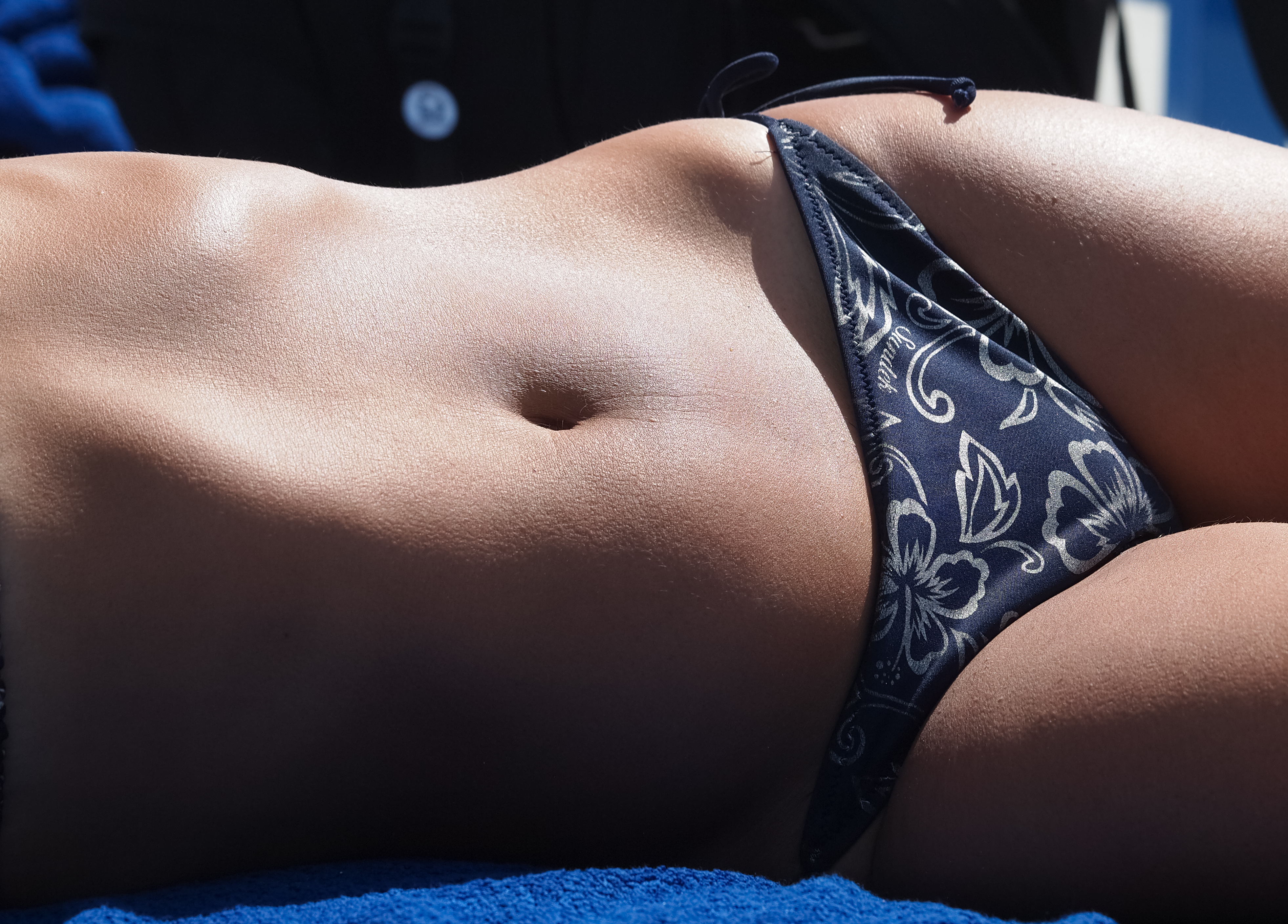 A woman's abdomen